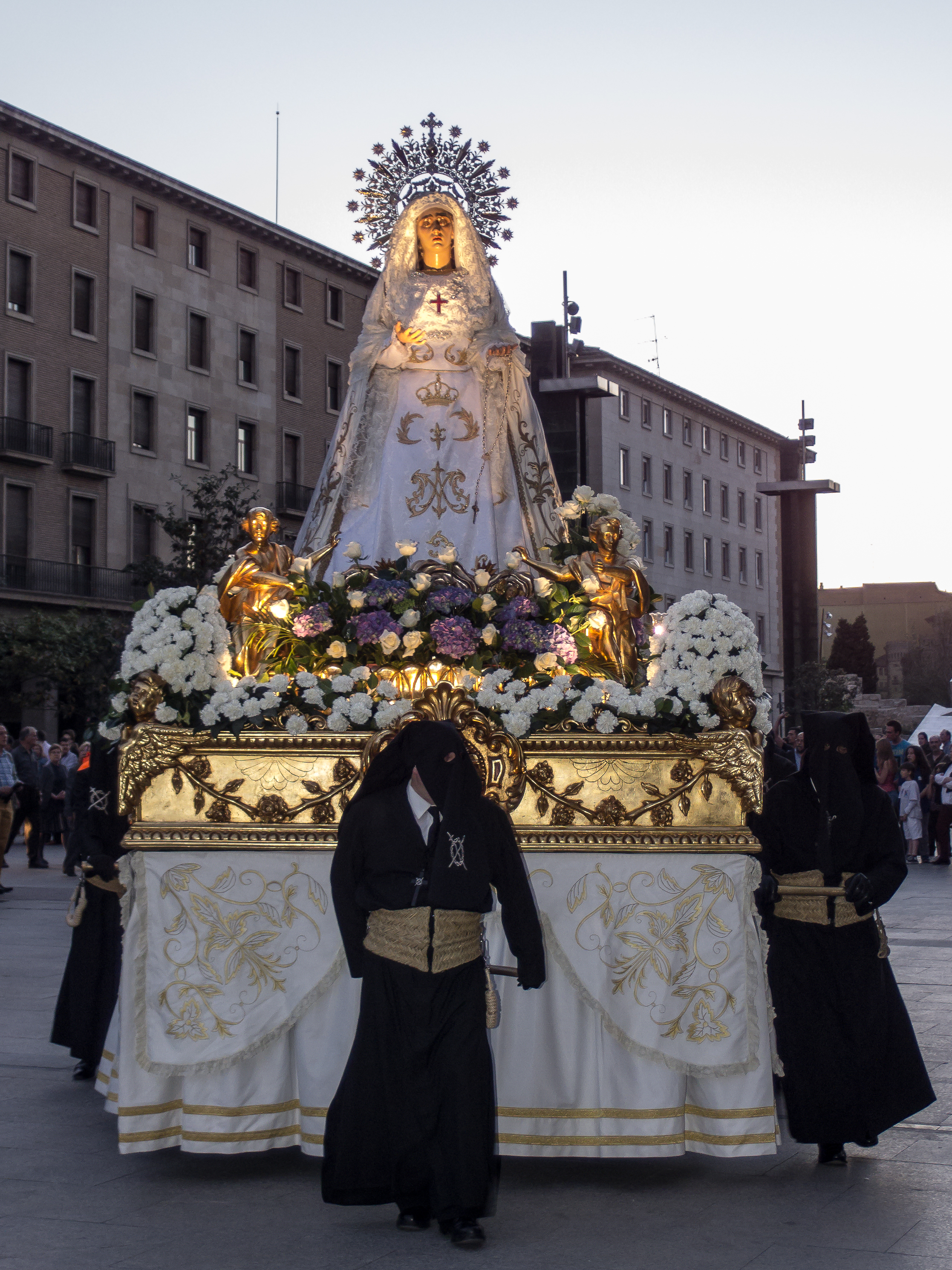 OLYMPUS DIGITAL CAMERA This is a photography of a Folklore festival in Spain (Wikidata id Q9075892).